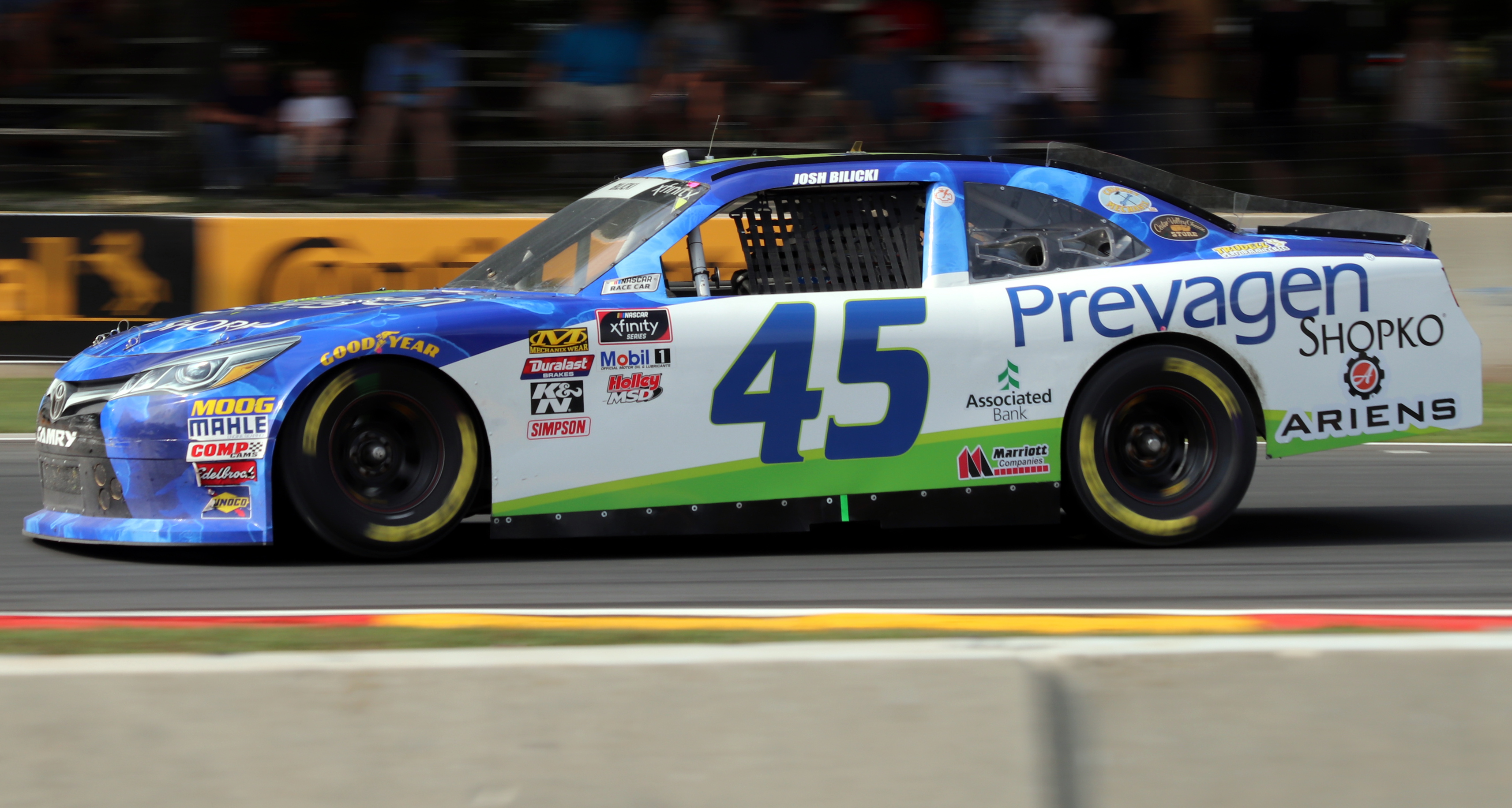 The NASCAR Xfinity Series Toyota Camry of Josh Bilicki racing though turn 6 during the 2018 Johnsonville 180 at Road America.